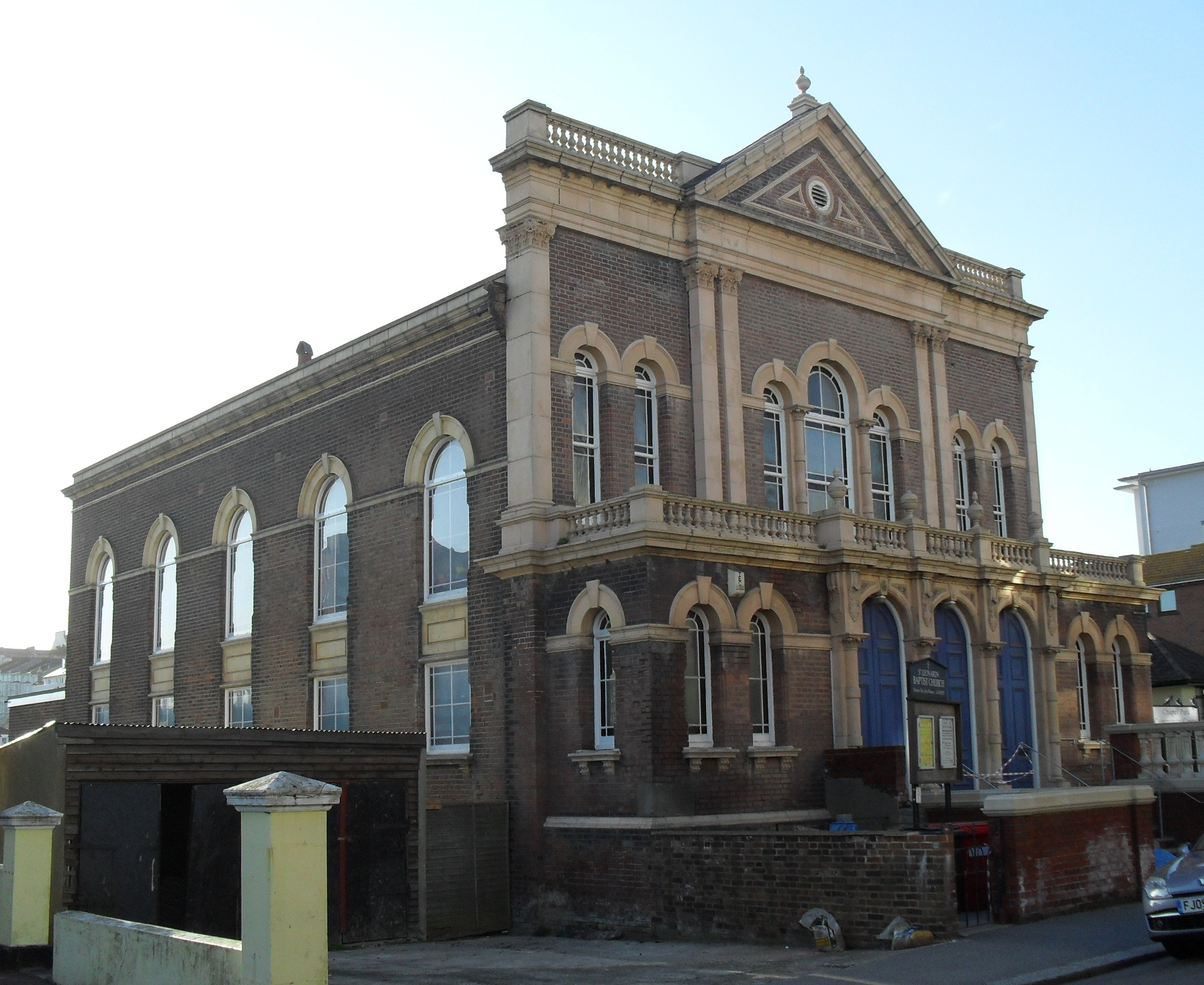 St Leonard's Baptist Church, Chapel Park Road, St Leonards-on-Sea, Hastings, East Sussex, England. Built in 1883 by Thomas Elworthy. Listed at Grade II by English Heritage (IoE Code 294178)